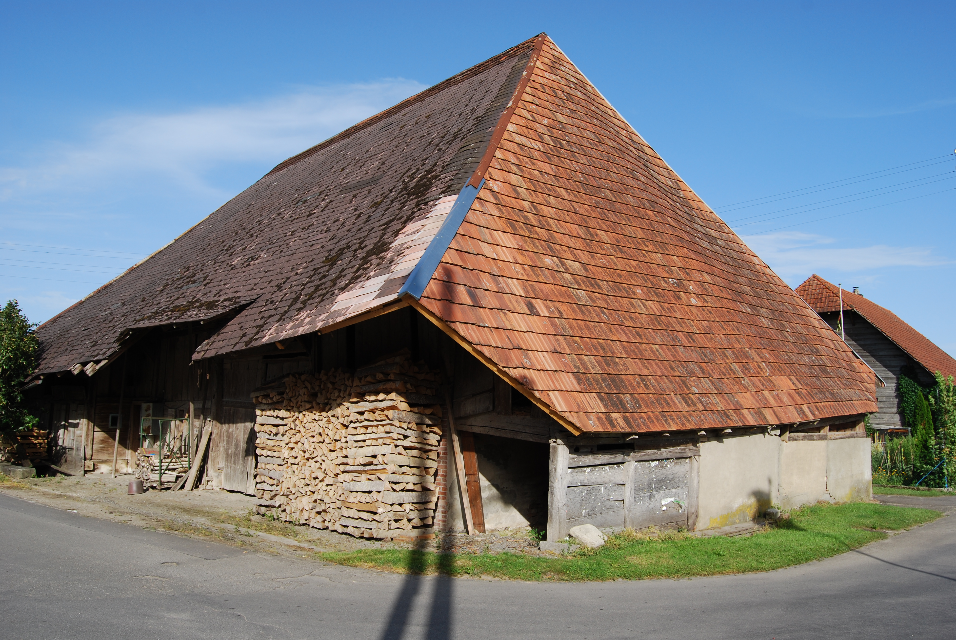 Wileroltigen, canton of Bern, SwitzerlandEsperanto: Wileroltigen, Kantono Berno, Svislando